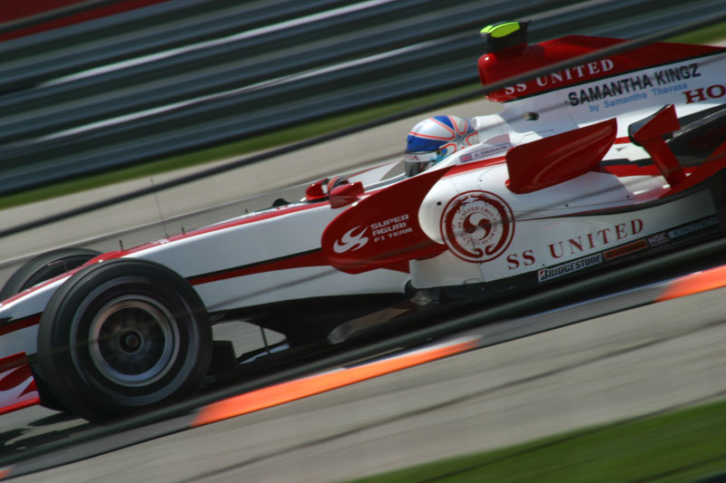 Anthony Davidson driving for Super Aguri F1 at the 2007 United States Grand Prix.